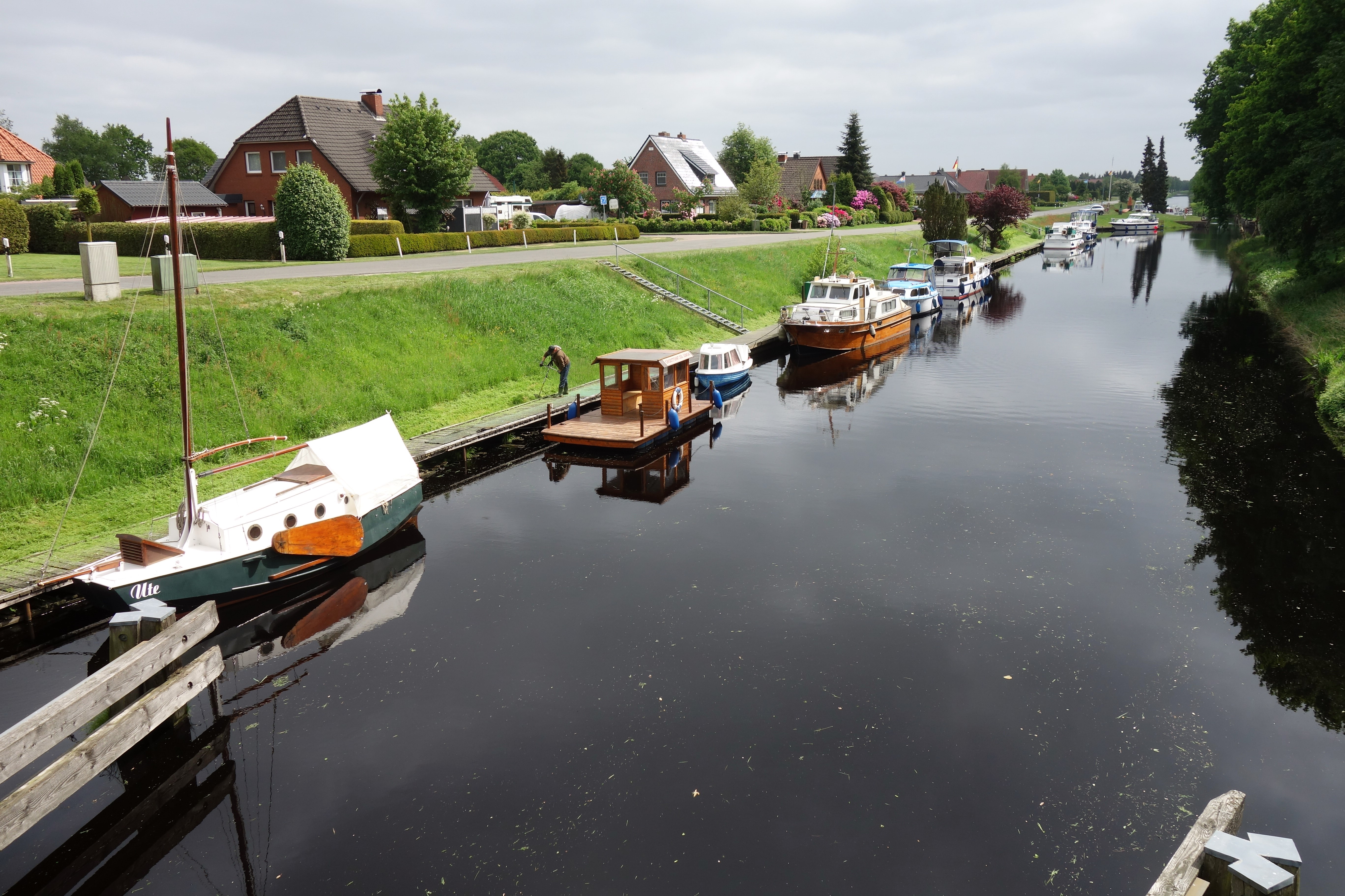 Boats of the WSV Marcardsmoor moored at Nordgeorgsfehnkanal